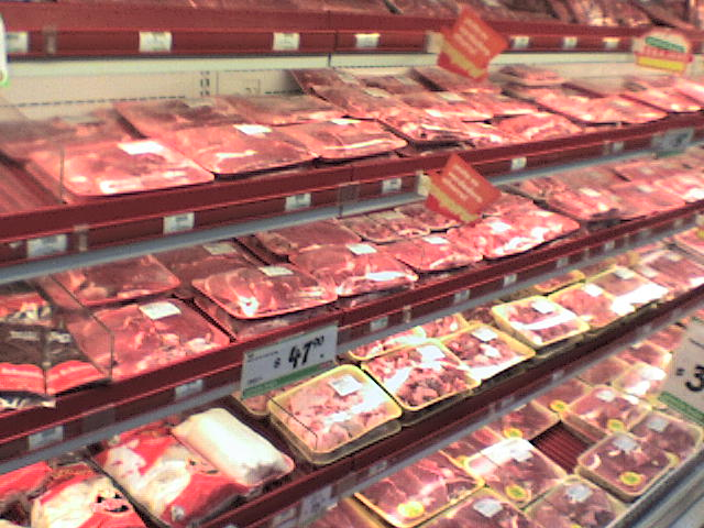 Meat at HEB Torreon